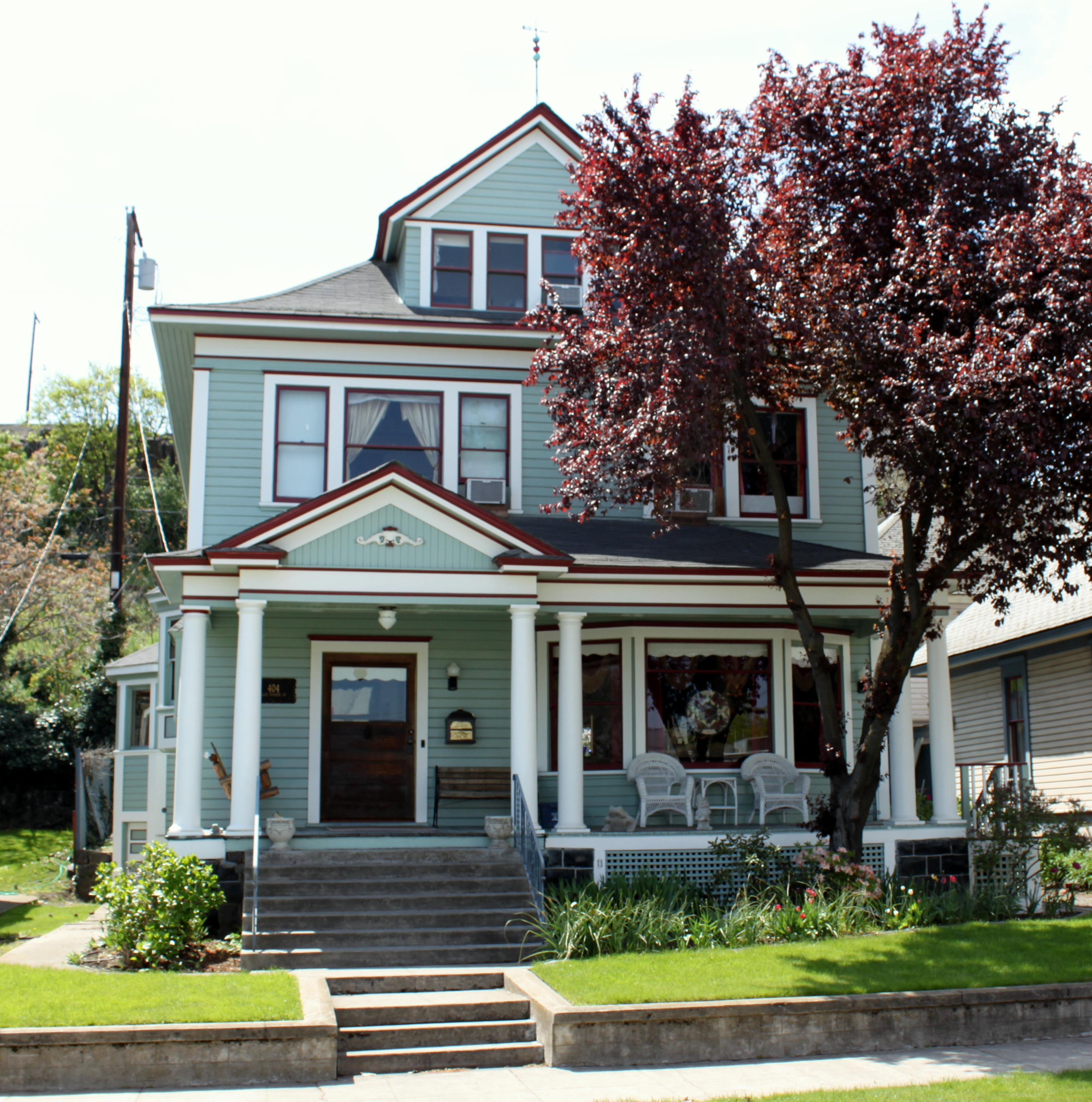 Sharp Family Residential Ensemble house, address 404.